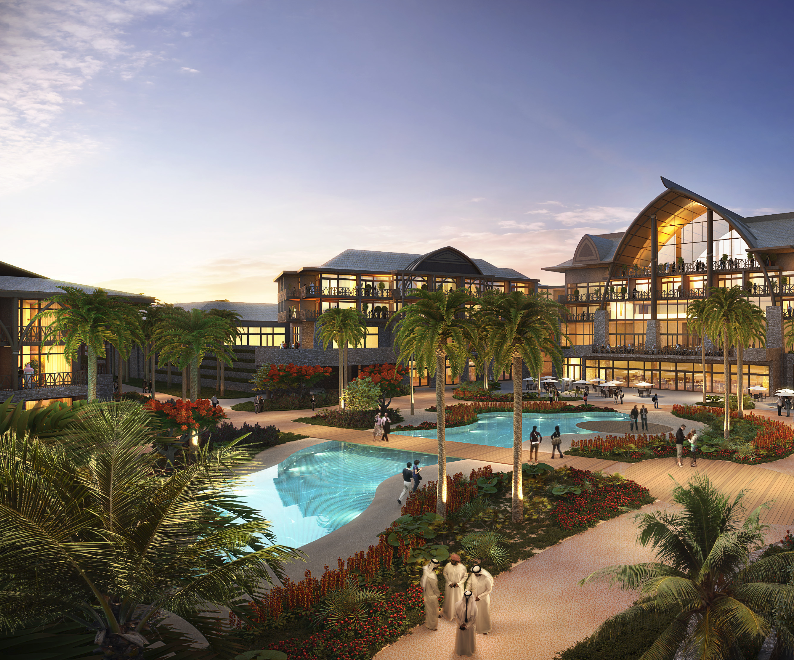 Lapita™ Hotel is the Polynesian-themed hotel, part of the Autograph Collection® by Marriott.